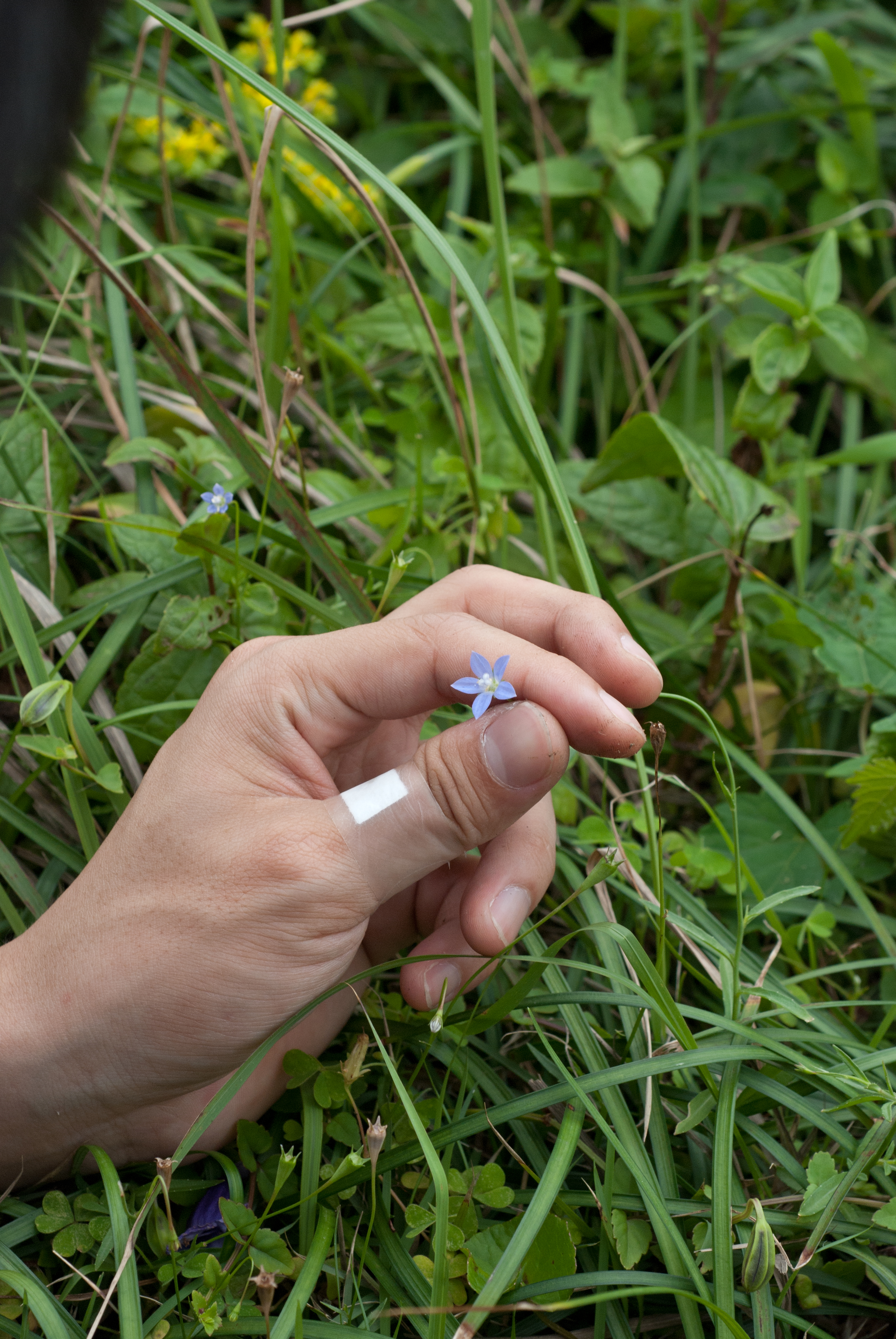 Wahlenbergia marginata.